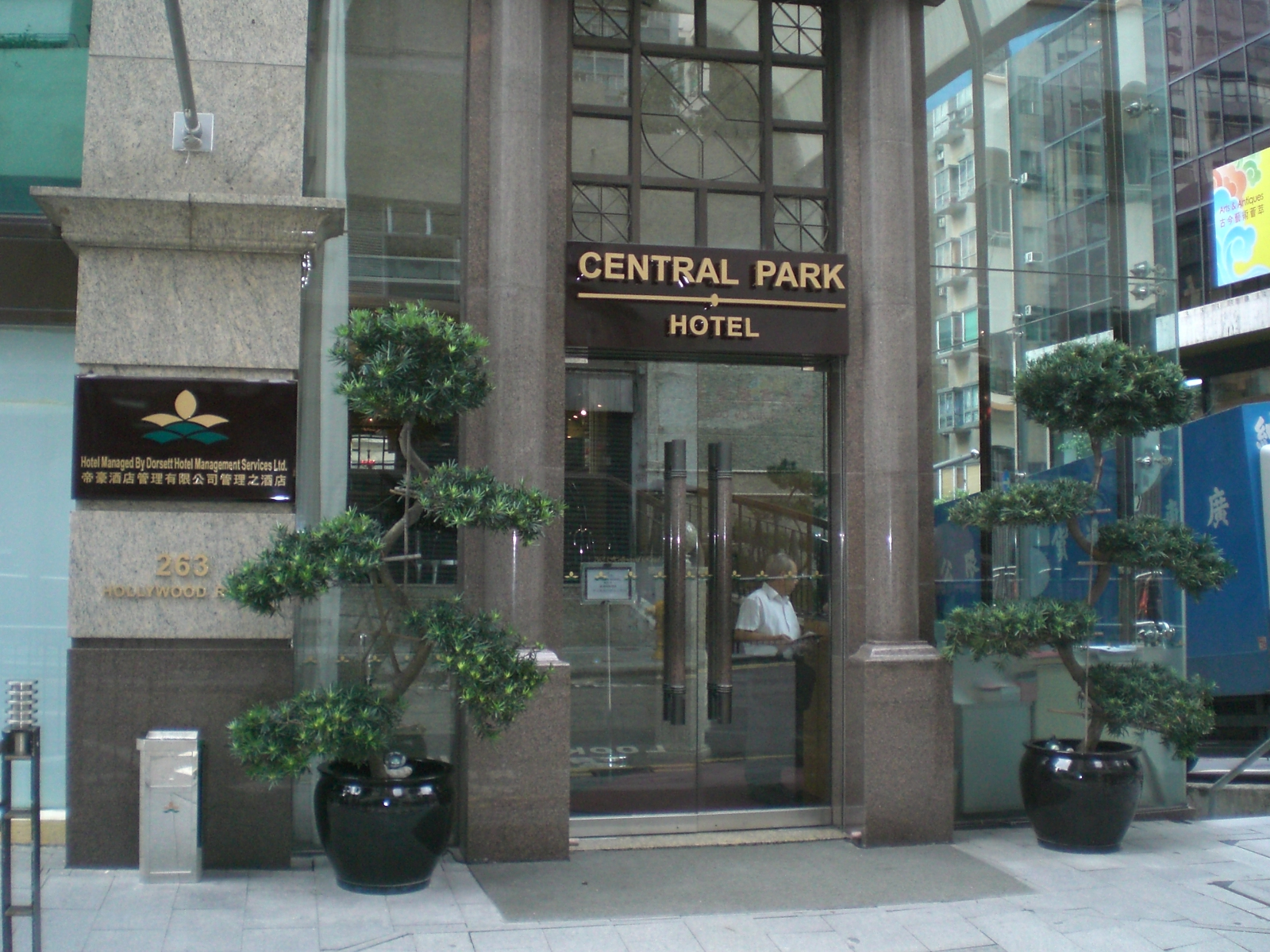 上環 中環麗柏酒店